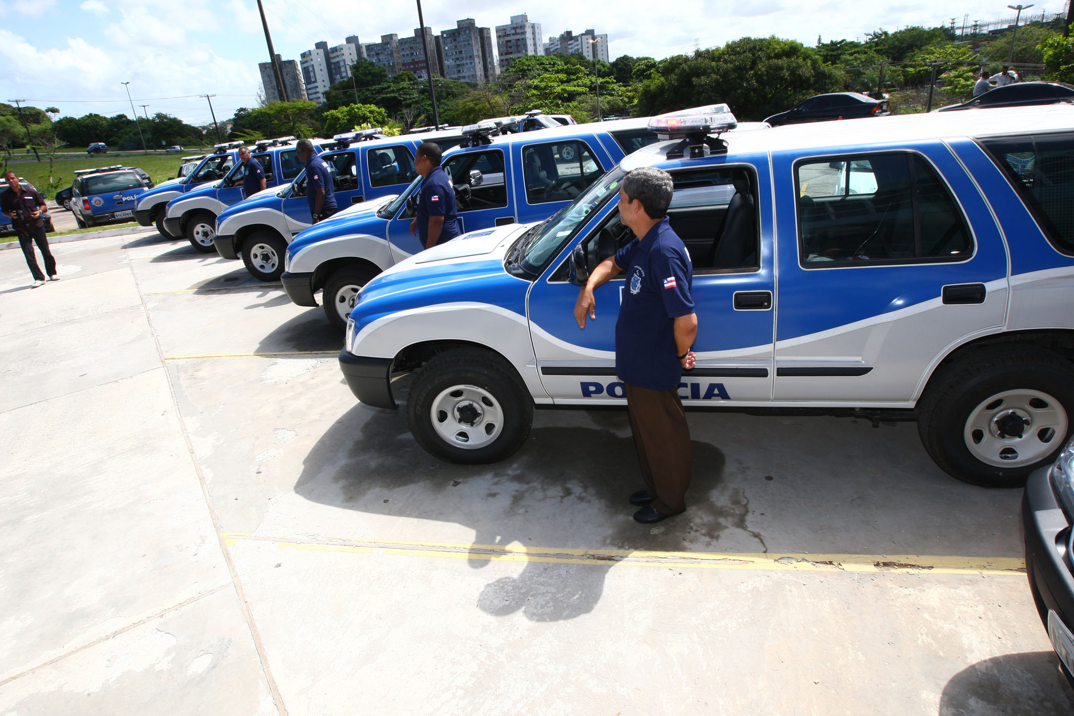 Police cars of Bahia - Brazil